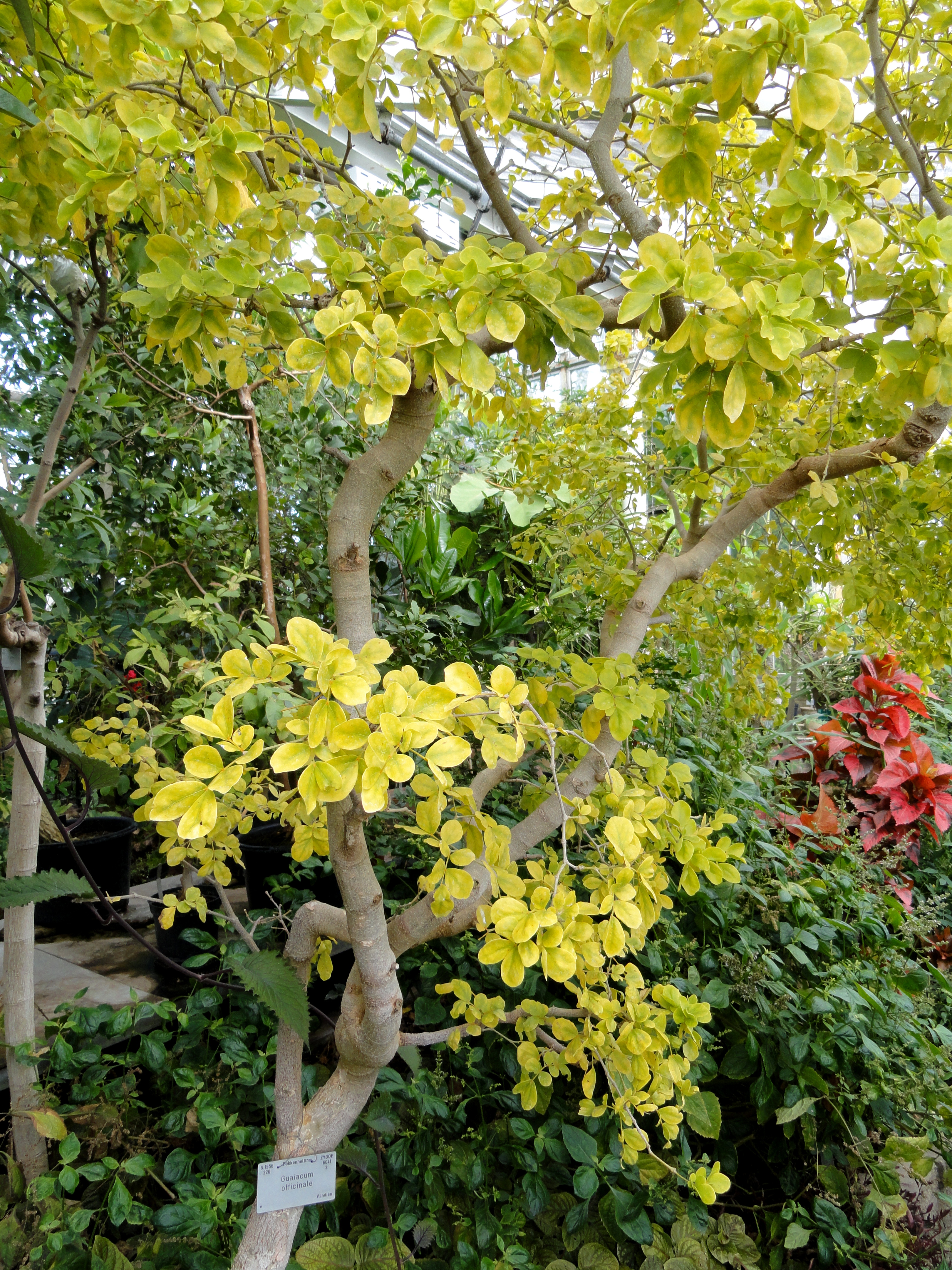 Botanical specimen in the University of Copenhagen Botanical Garden, Copenhagen, Denmark.